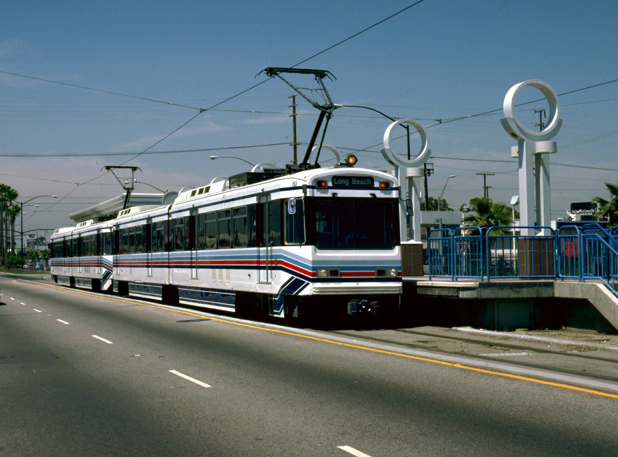 A southbound train at Pacific Coast Highway station in 2004